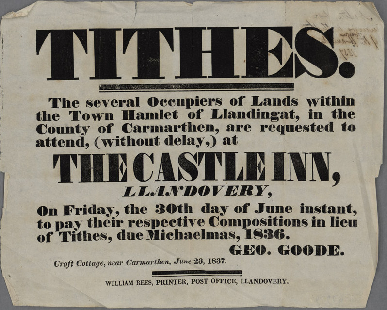 Tithes poster 1837